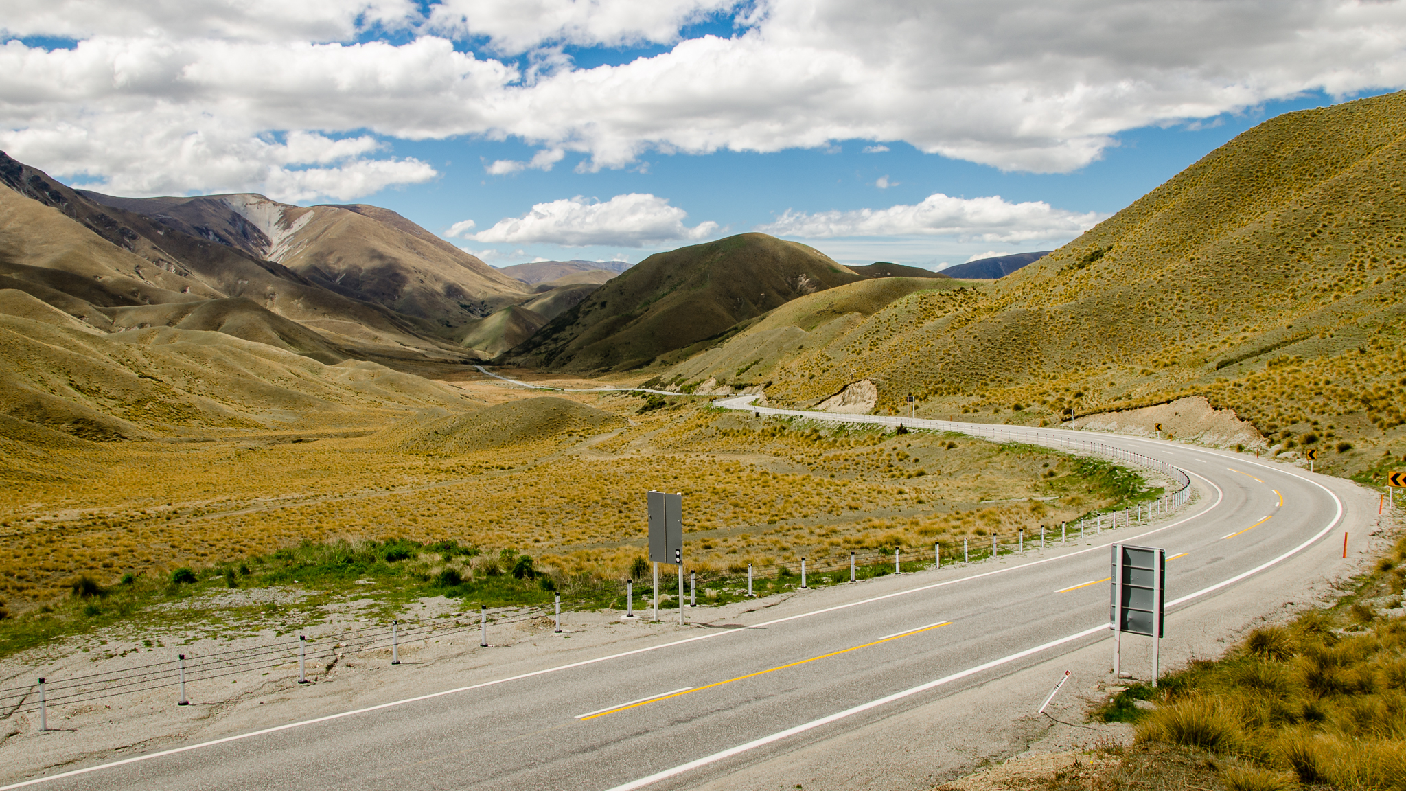 Lindis Pass #2